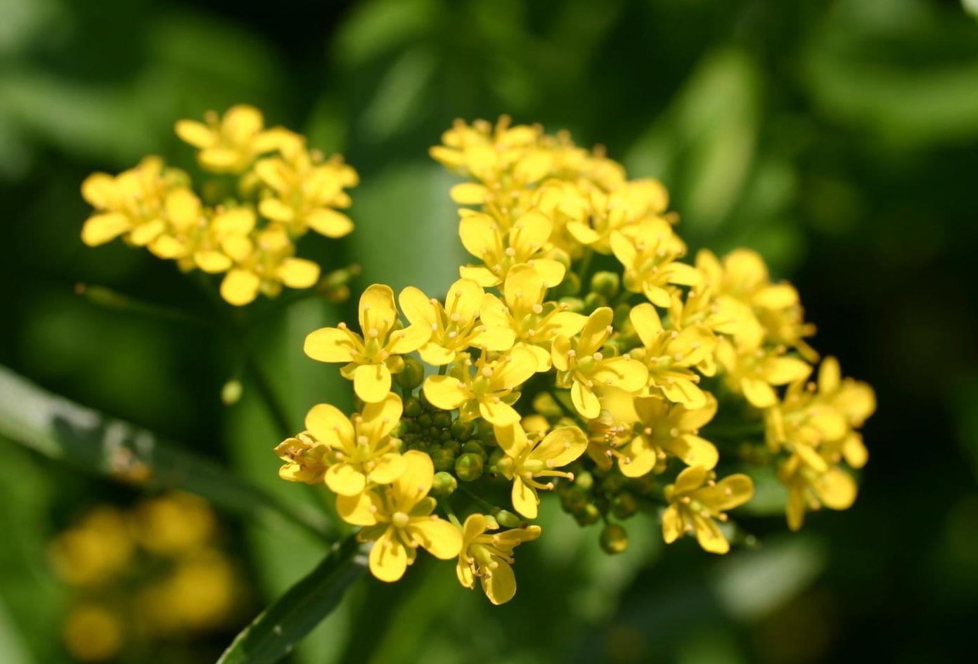 Rorippa amphibia, USA